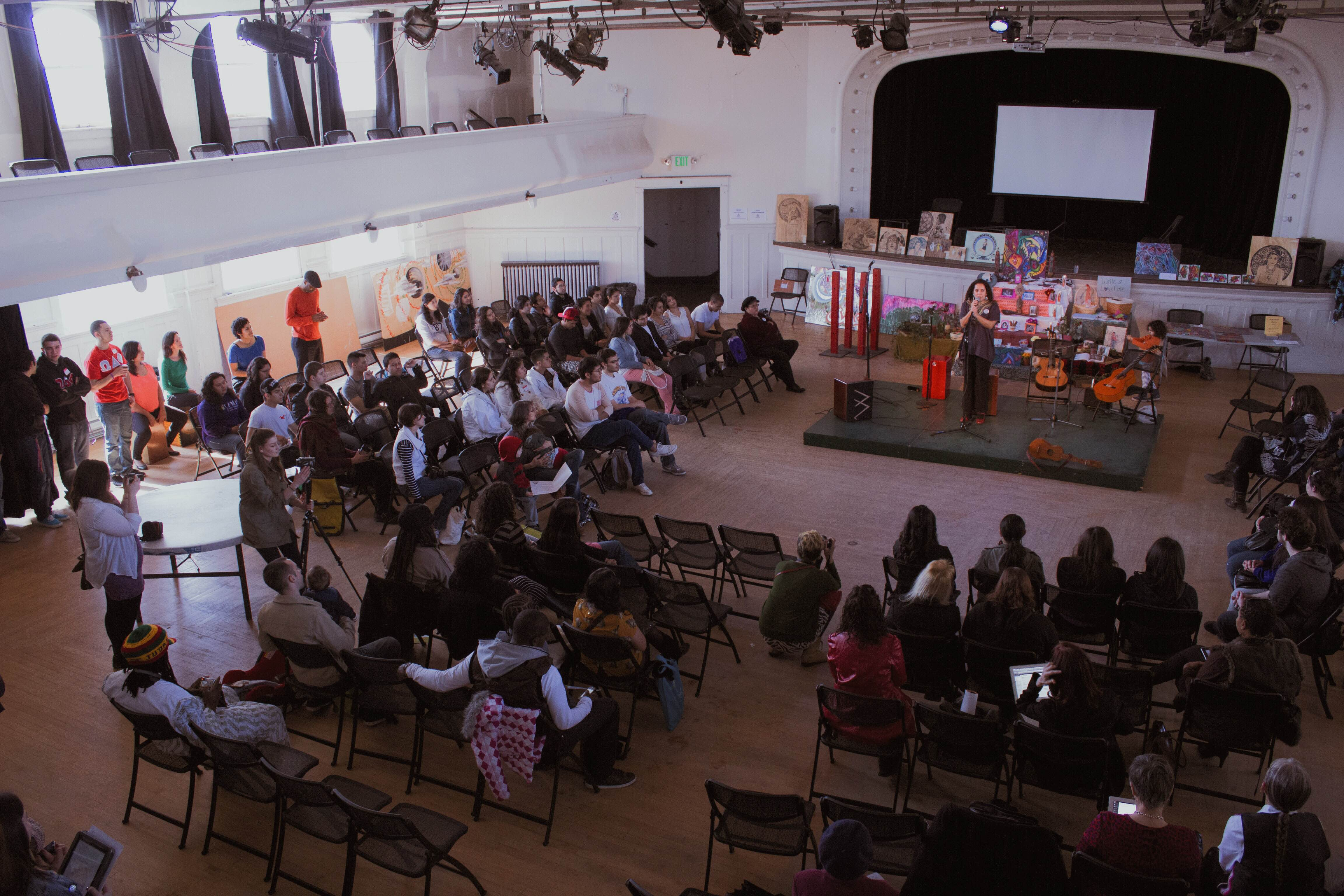 Washington Hall interior during the March 2013 Women Who Rock un-conference. Washington Hall (also Washington Performance Hall), 153 14th Avenue, Seattle, Washington, USA. Built 1908 as a settlement house by the Danish Brotherhood Society in 1918.